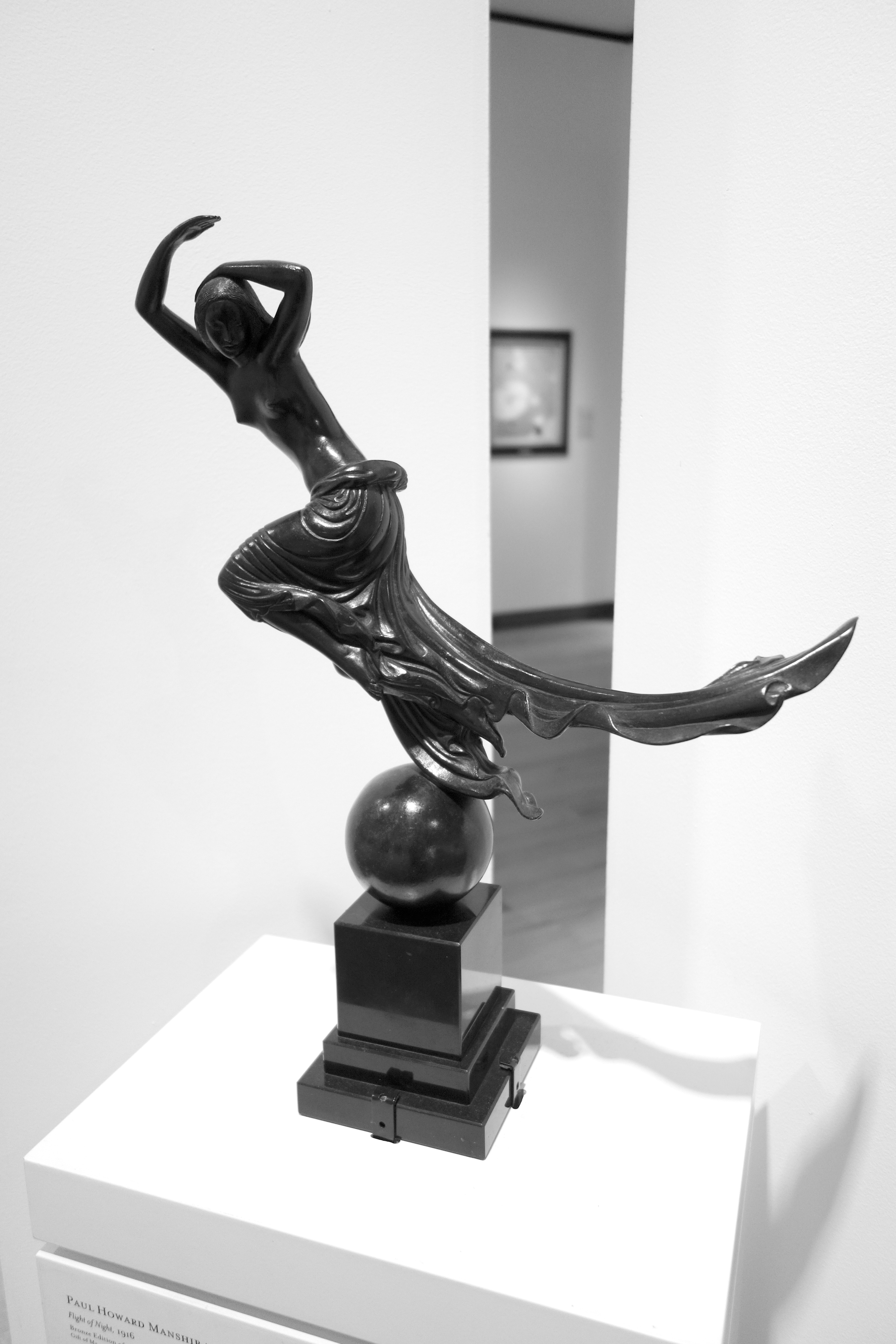 Exhibit in the New Britain Museum of American Art, New Britain, Connecticut, USA. This artwork is in the public domain because it was first published in the United States before 1923.